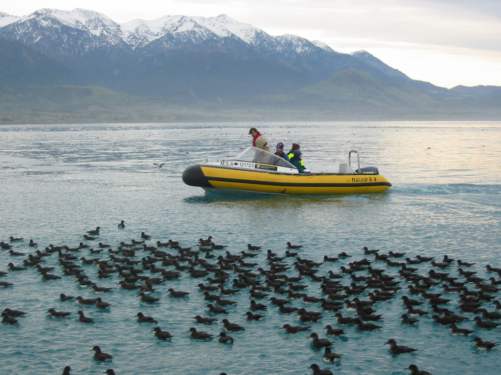 Rubber boat with a raft of Hutton's Shearwaters Puffinus huttoni swimming off Kaikoura Peninsula. Permission supplied with image: “All DOC images are available under Crown copyright and licensed for reuse under Creative Commons Attribution 4.0 so just credit Department of Conservation.” —Laura Honey, Web Communications Advisor, DOC, 29 Feb 2016